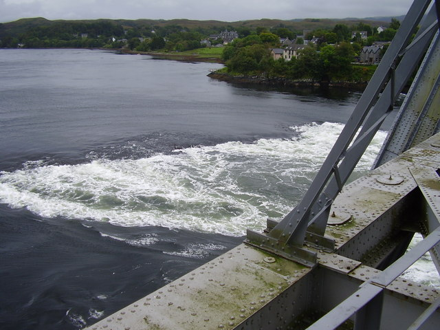 Falls of Lora Taken from Connell Bridge